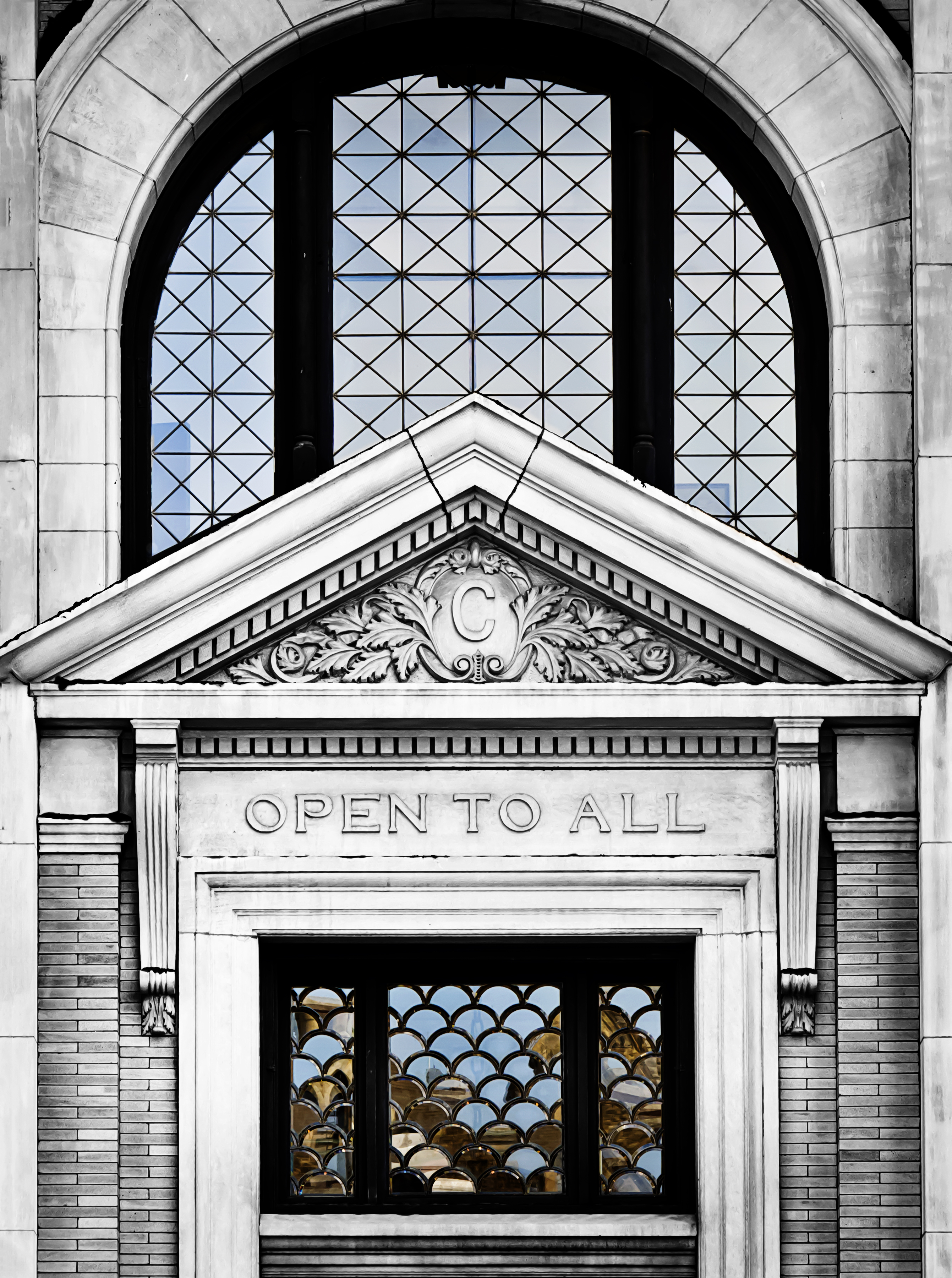 Canton Public Library